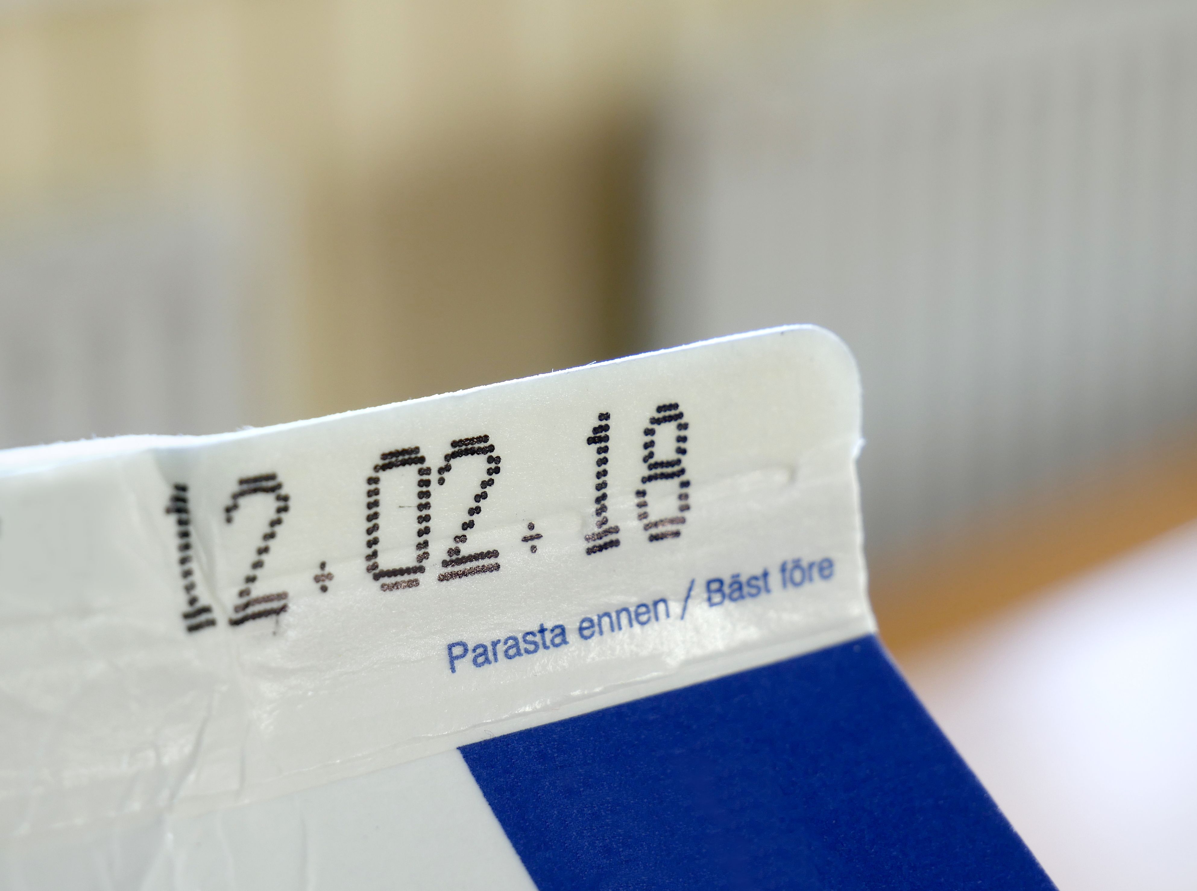 Expiration date 12.02.2018.